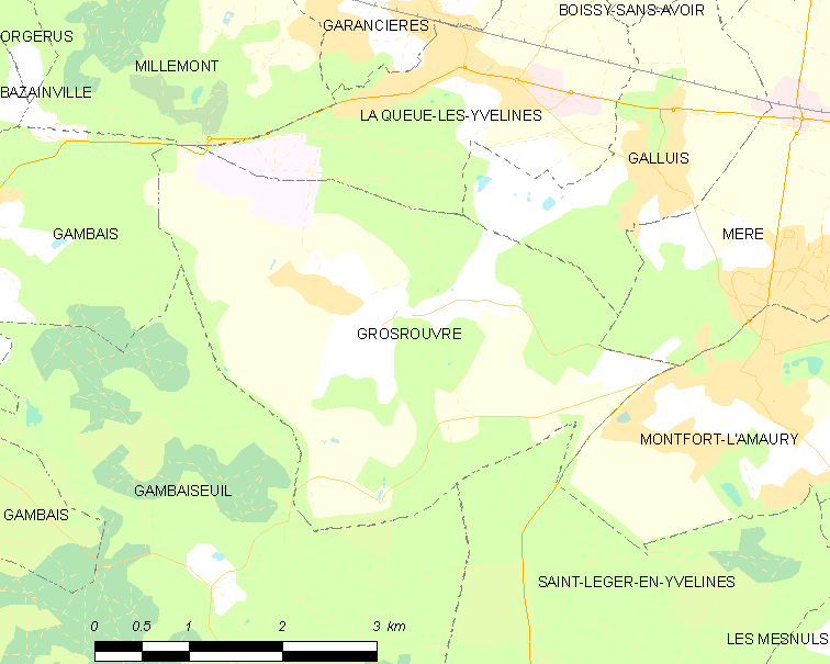 Map of French municipality Grosrouvre